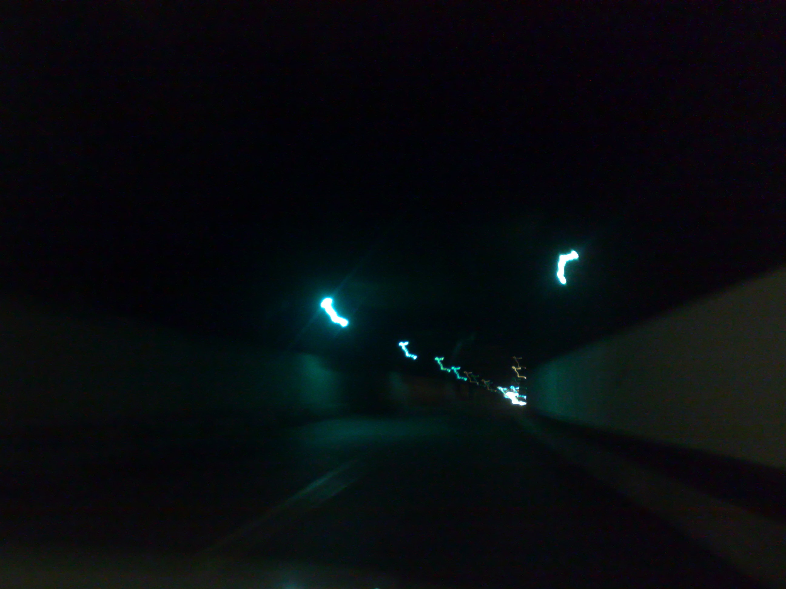 Dilijan tunnel in Armenia. Inside